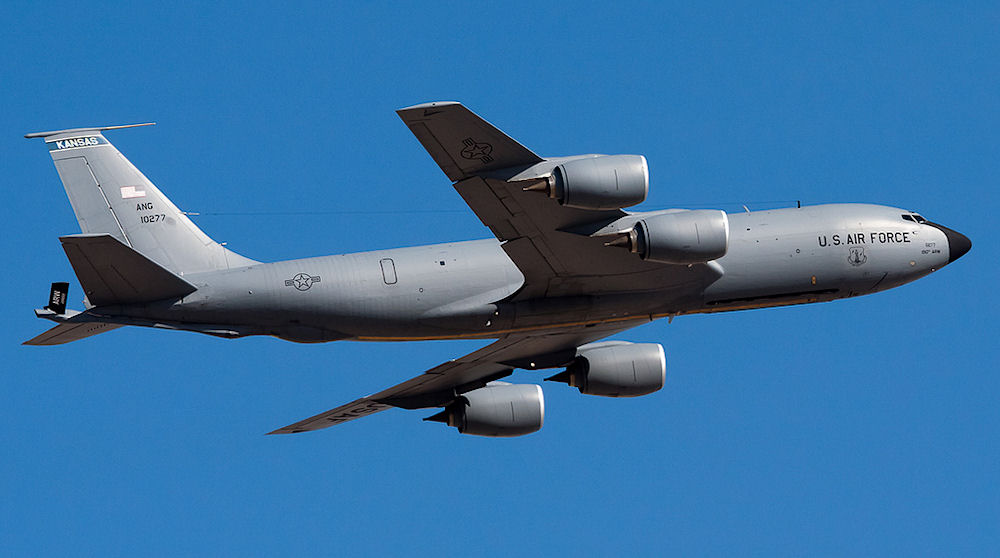 184th Air Refueling Wing - Boeing KC-135A-BN Stratotanker 61-0277